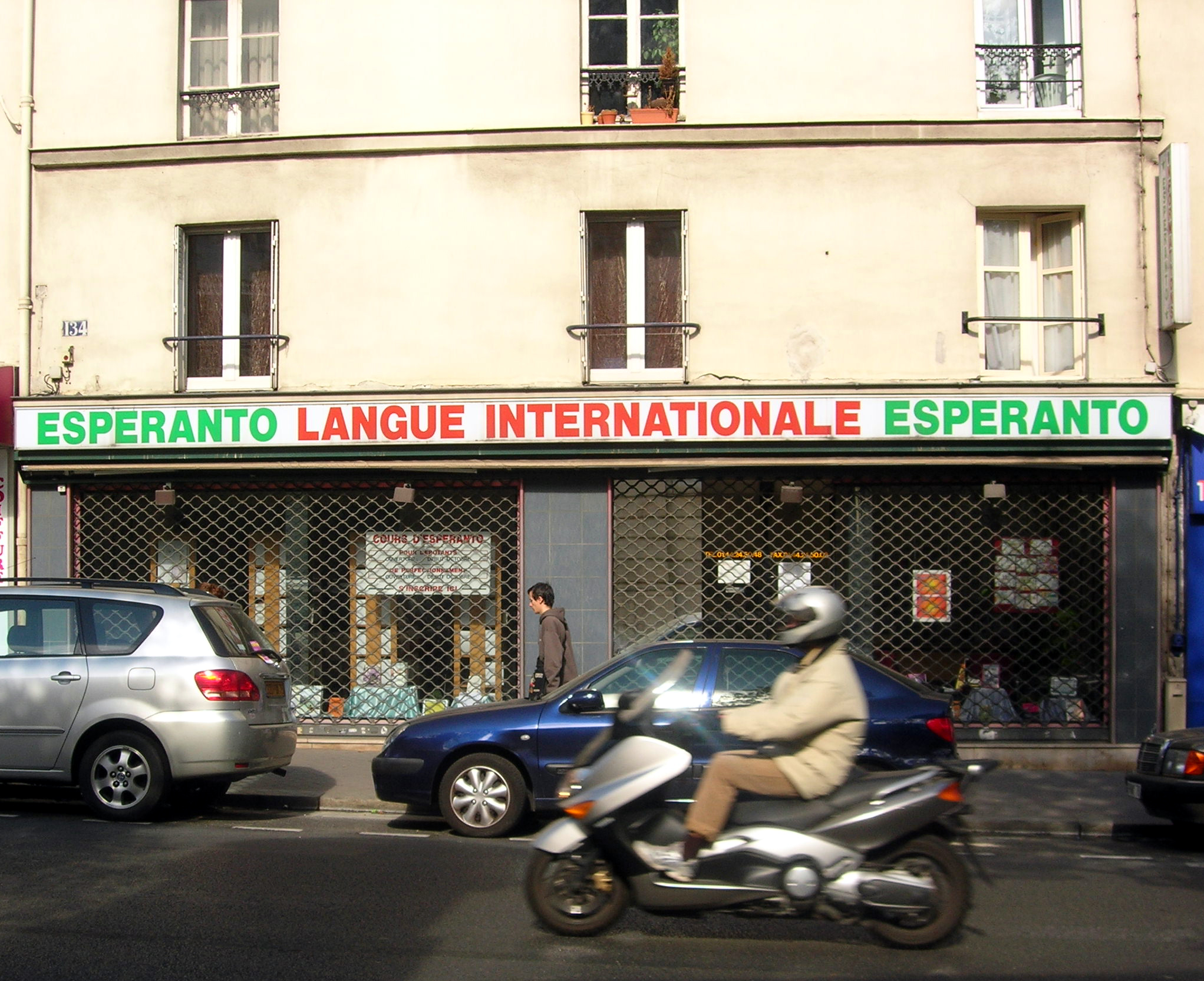 SAT-Amikaro in Paris XIII, 132–134 Boulevard Vincent AuriolEsperanto